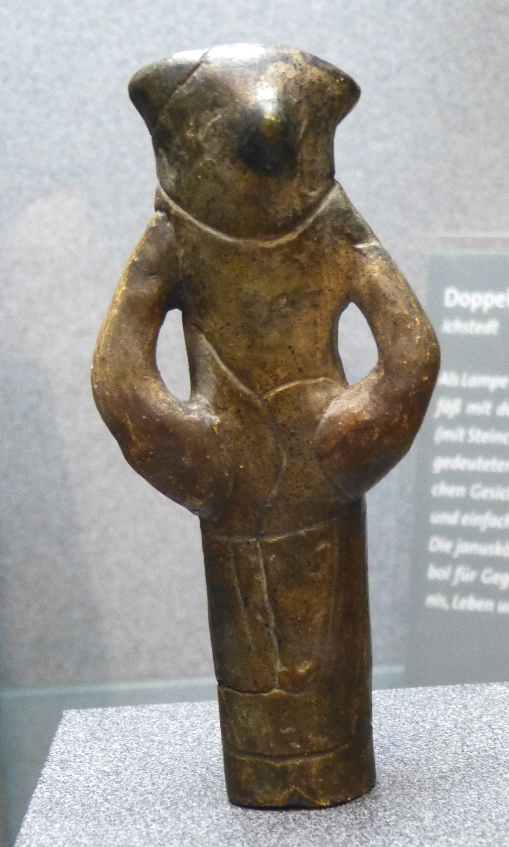 Weimar ( Thuringia ). Museum for Prehistory in Thuringia: Female cult image of the Linear Pottery Culture ( 5th/4th millenium BC ) from Nerkewitz..